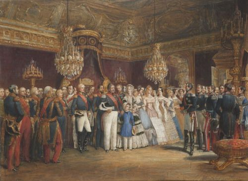 Reception by Louis Philippe and the royal family at the Tuileries, 1847